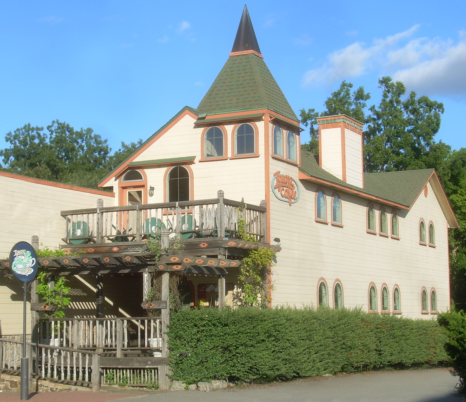 The Iguana Cafe in Tahlequah, Oklahoma.